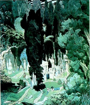 "Elisium" by Léon Bakst (1866-1924) from 1906.